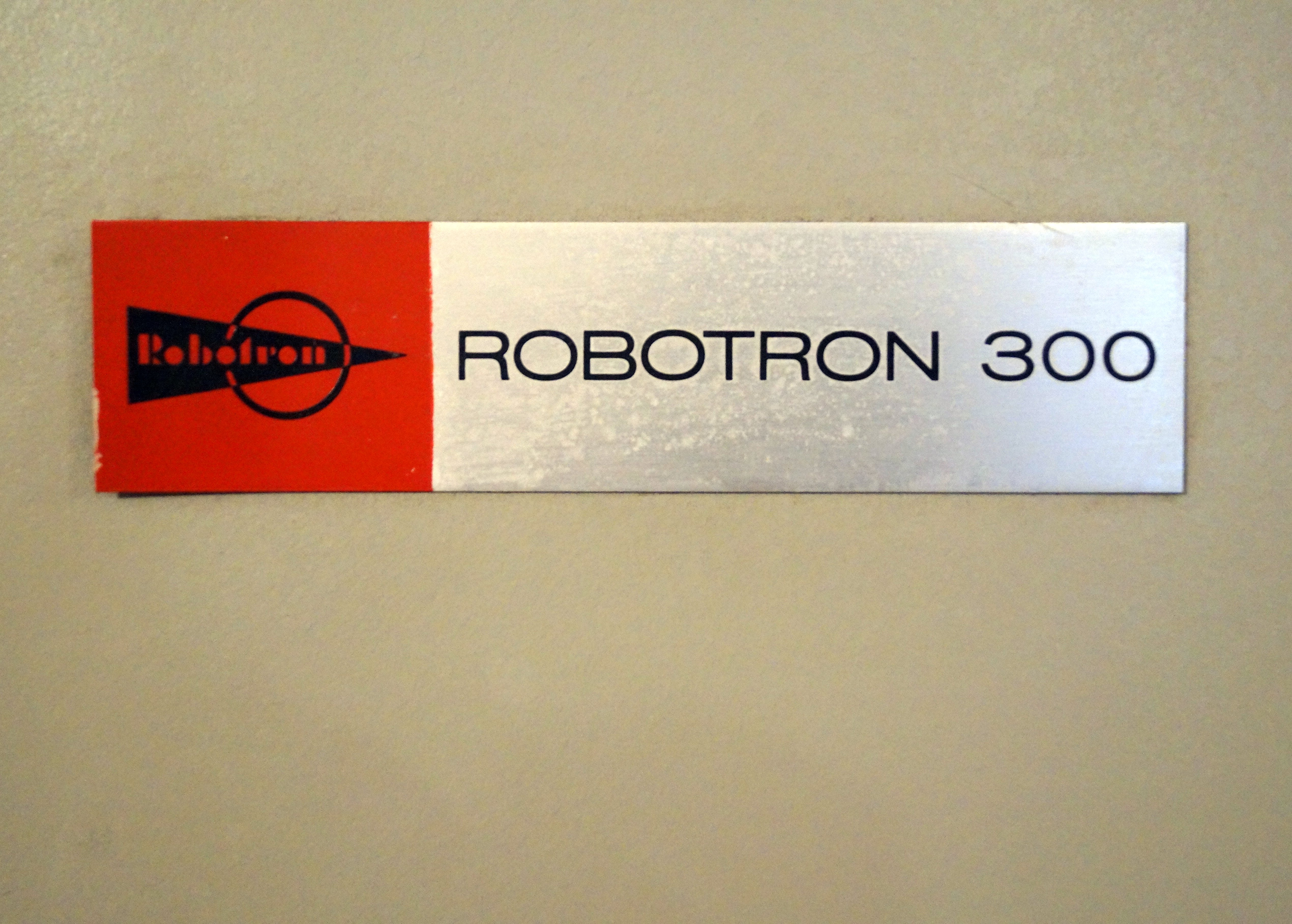 type label from Robotron 300